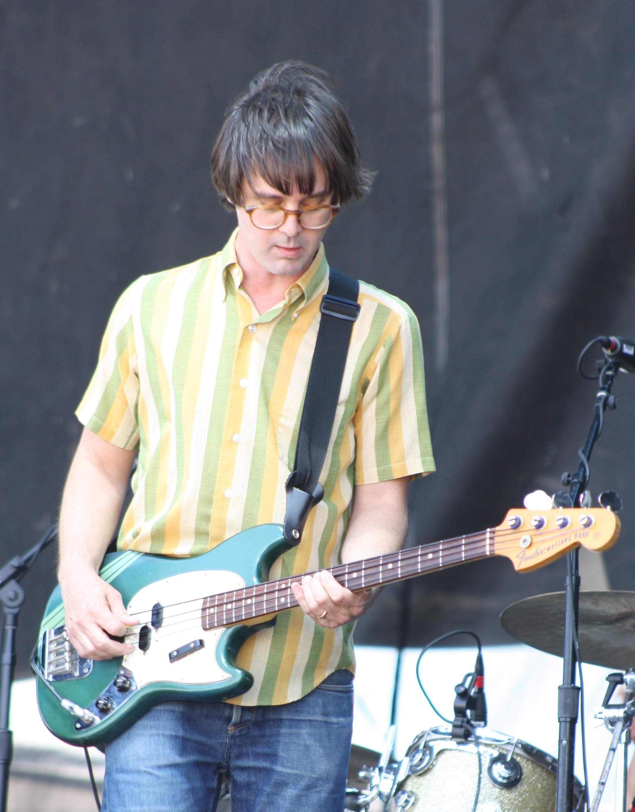 Mike Andrews performing at the Hangout Music Festival in 2012